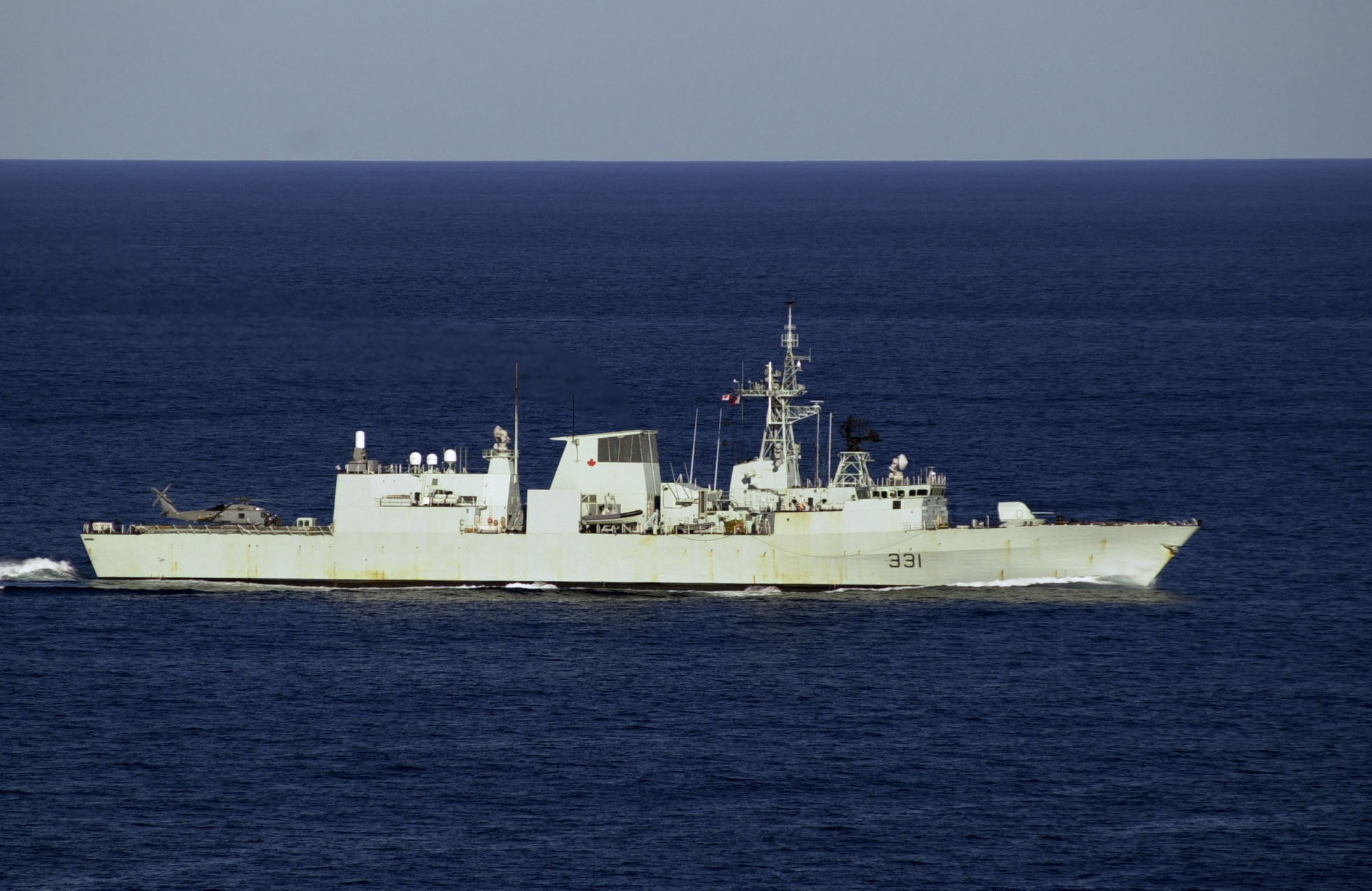 The Canadian frigate HMCS Vancouver (FFH 331) patrols off the coast of Australia with a U.S. Navy SH-60B Seahawk helicopter on board. The crew from the HSL-51 aircraft were practicing landing on the Canadian frigate during exercise "Tandem Thrust". Exercise "Tandem Thrust 2001" was a combined United States and Australian military training exercise. This biennial exercise is being held in the vicinity of Shoalwater Bay Training Area, Queensland, Australia. Morethan 27,000 Soldiers, Sailors, Airmen and Marines were participating, with Canadian units taking part as opposing forces.